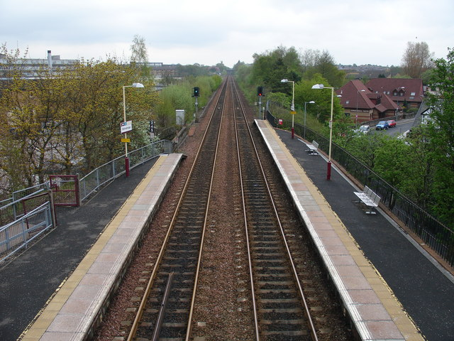 Bishopbriggs railway station, Bishopbriggs, Scotland